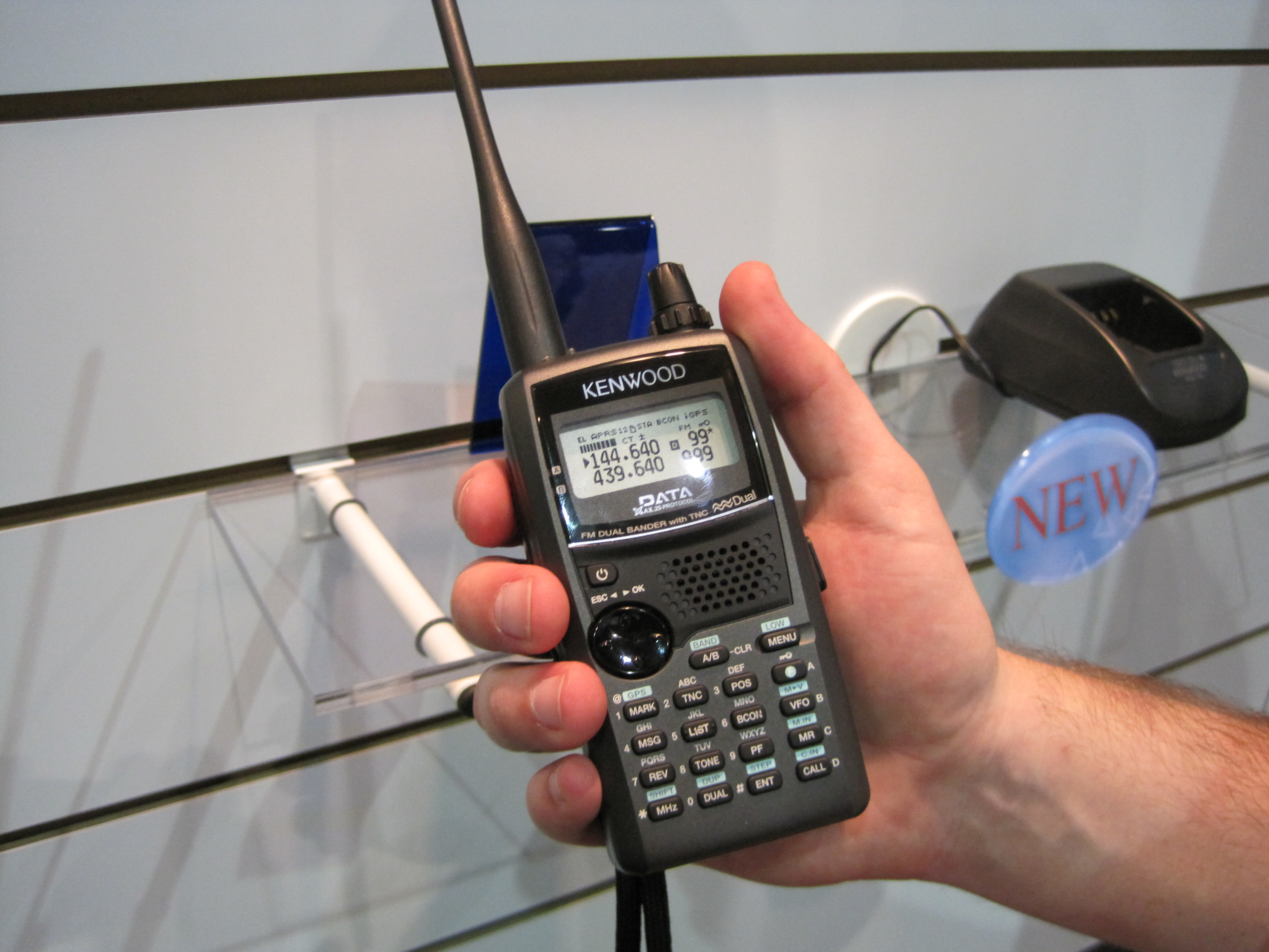 Kenwood TH-D72 handheld 2m/70cm transceiver with GPS receiver, built-in TNC and APRS capabilities